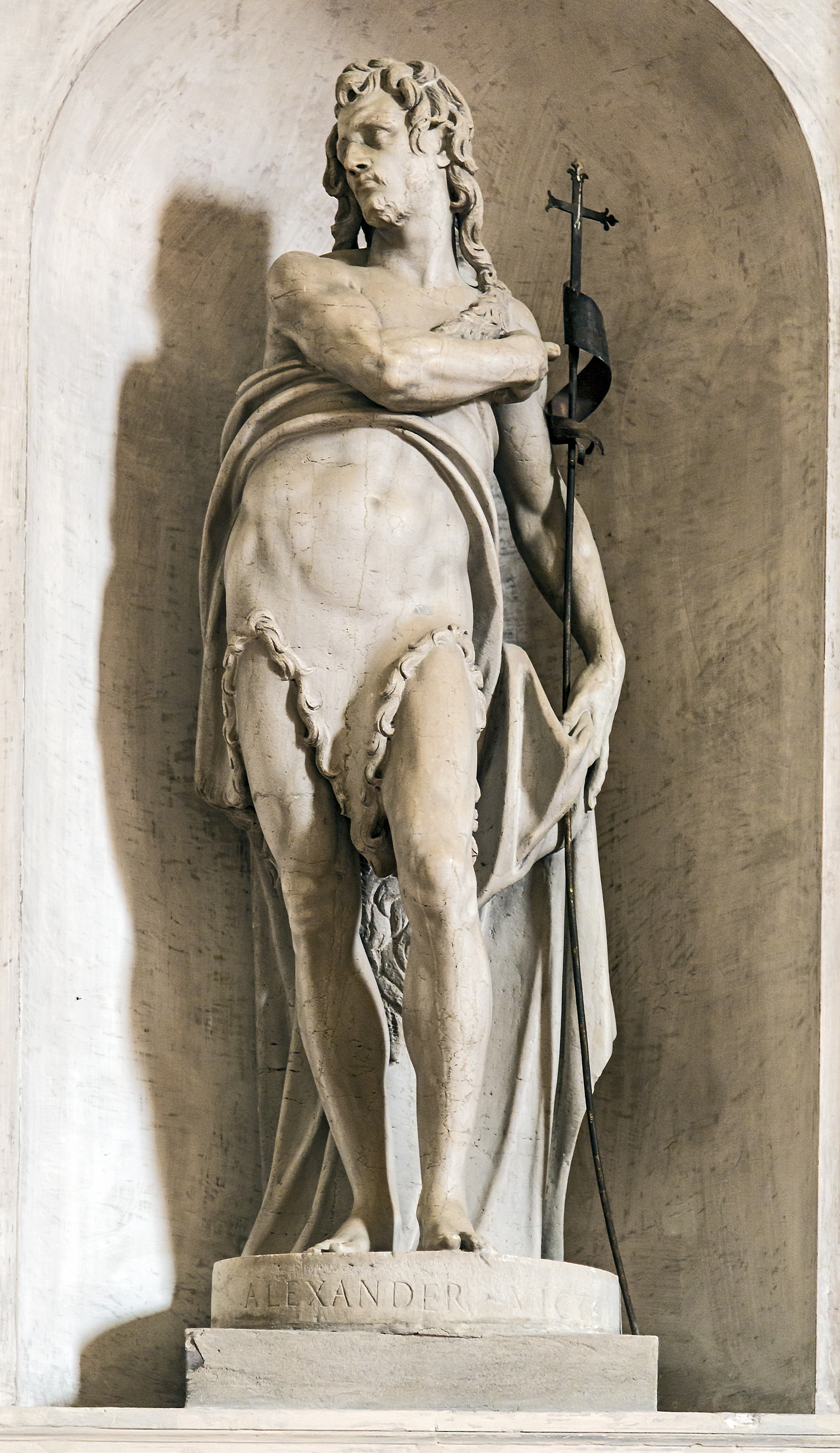 Treviso Cathedral - Saint John the Baptist by Alessandro Vittoria 1570